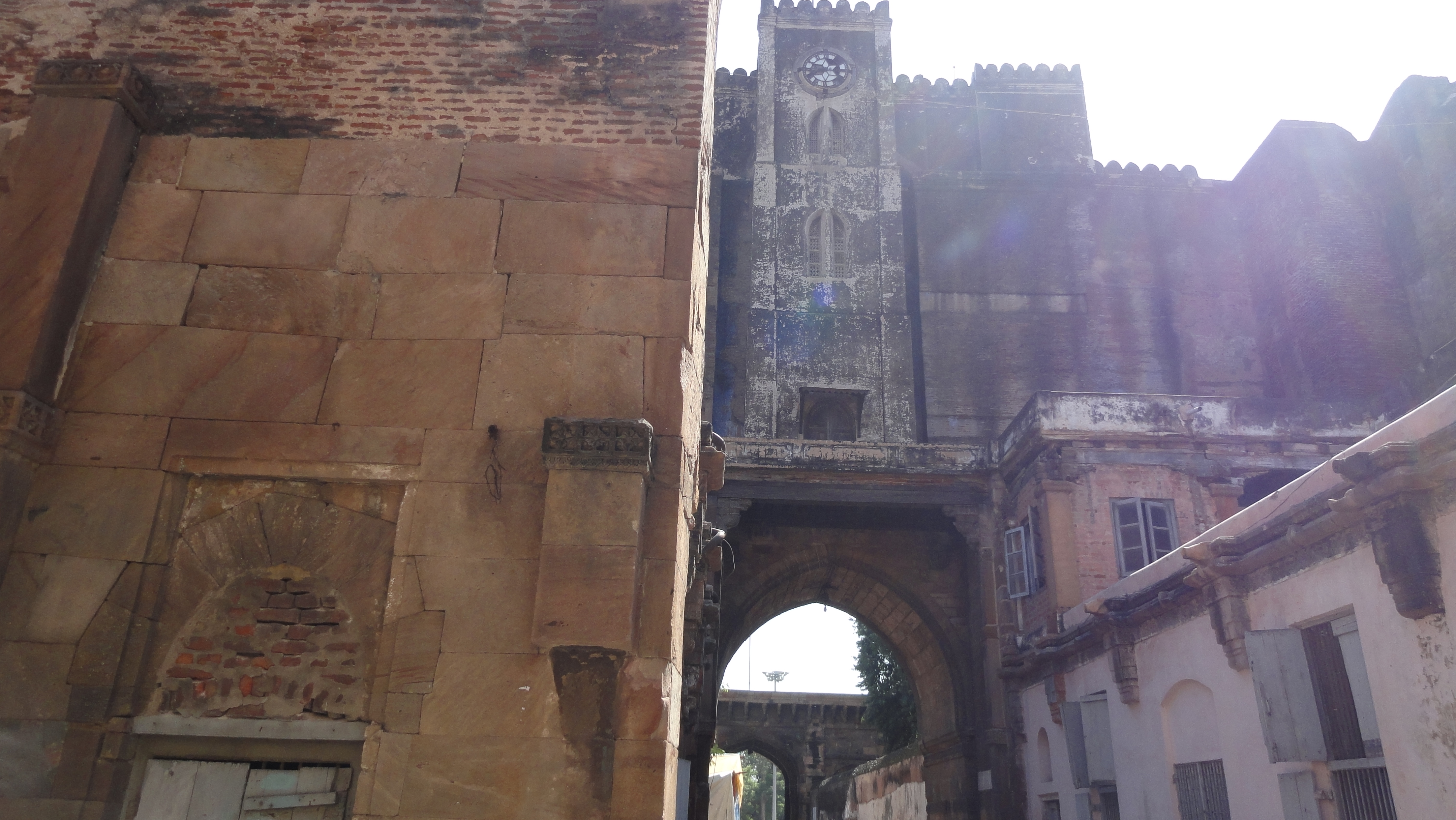 Bhadra Fort Ahmedabad